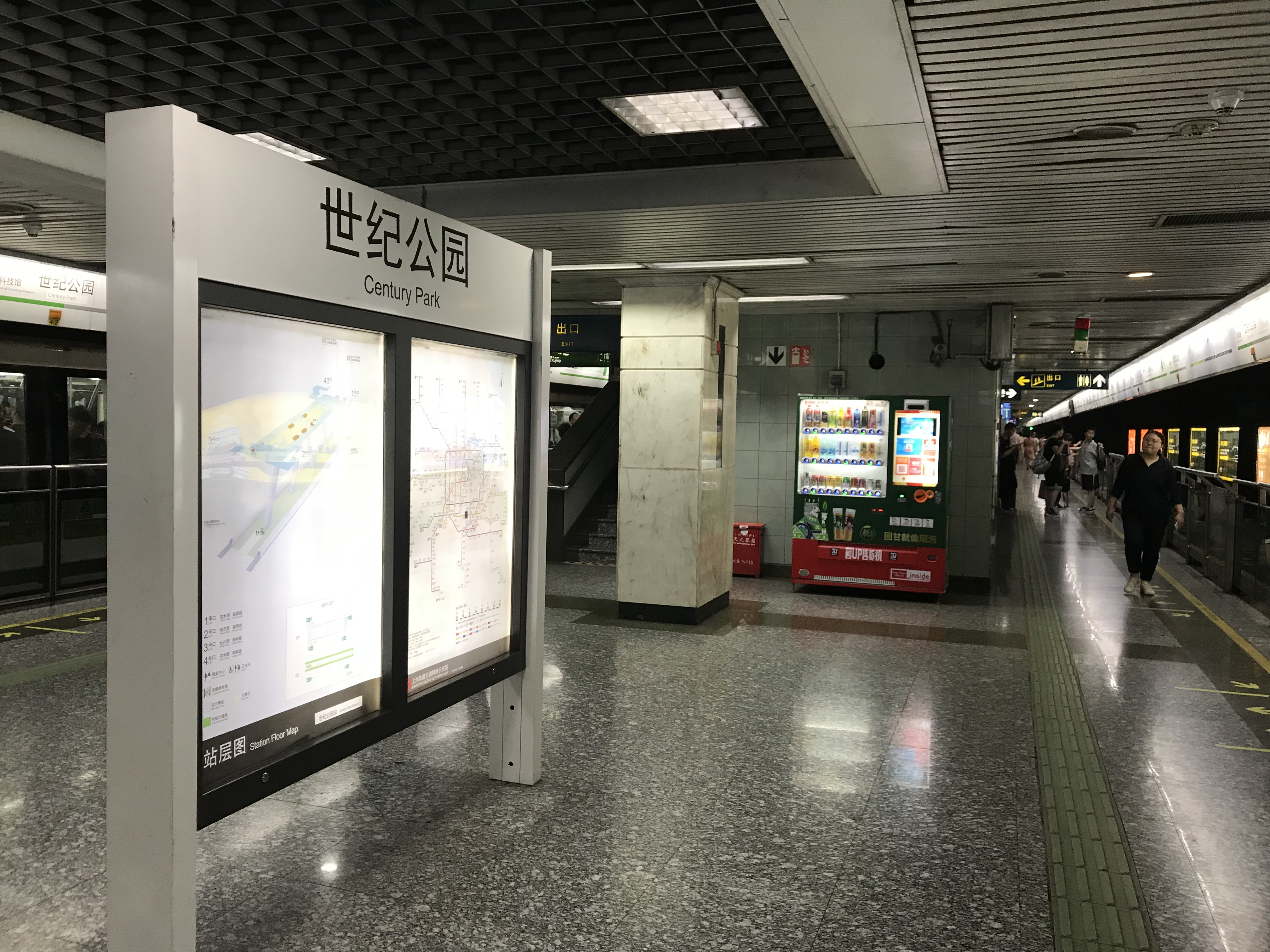 201908 Platform of Century Park Station